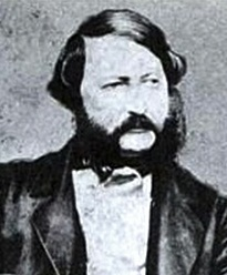 August of Saxe-Coburg and Gotha, Prince of Koháry.